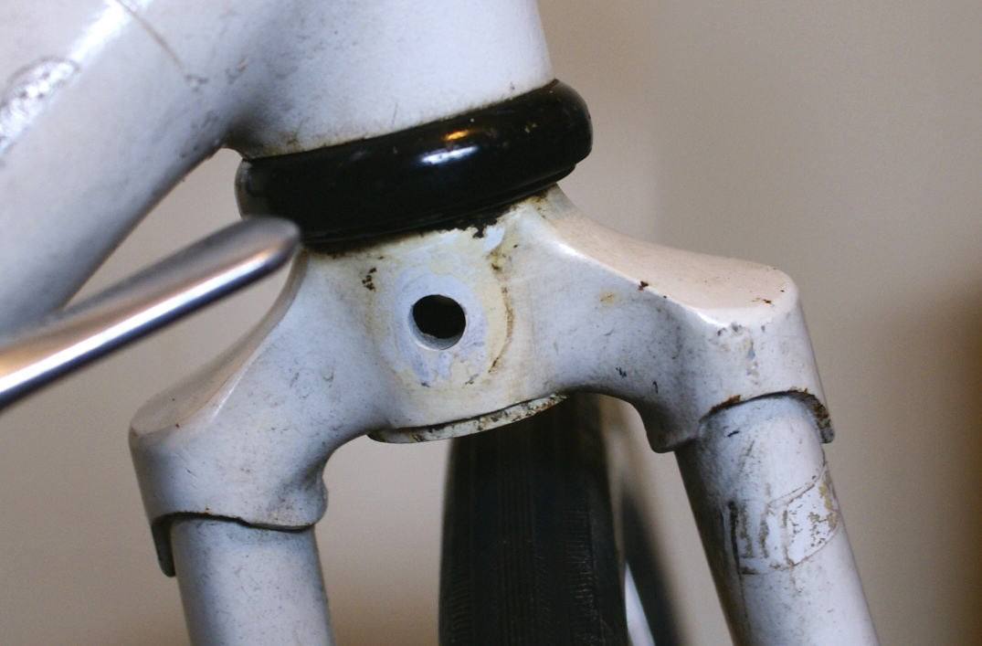 Bridgestone roadbike RADAC frontfork